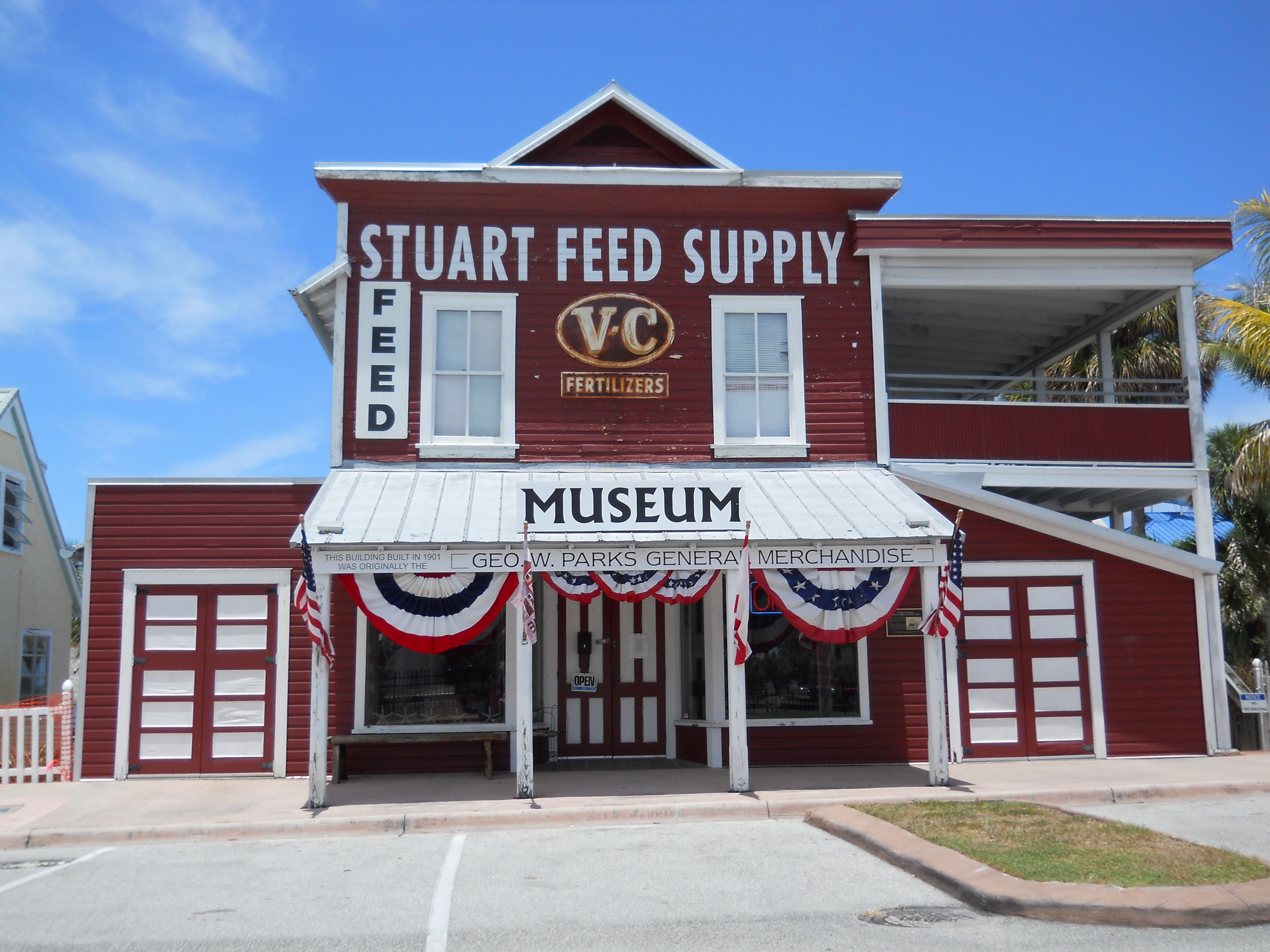 Stuart Heritage Museum, also known as Stuart Feed Supply and George W Parks Merchandise, 161 Southwest Flagler Avenue Stuart, Florida